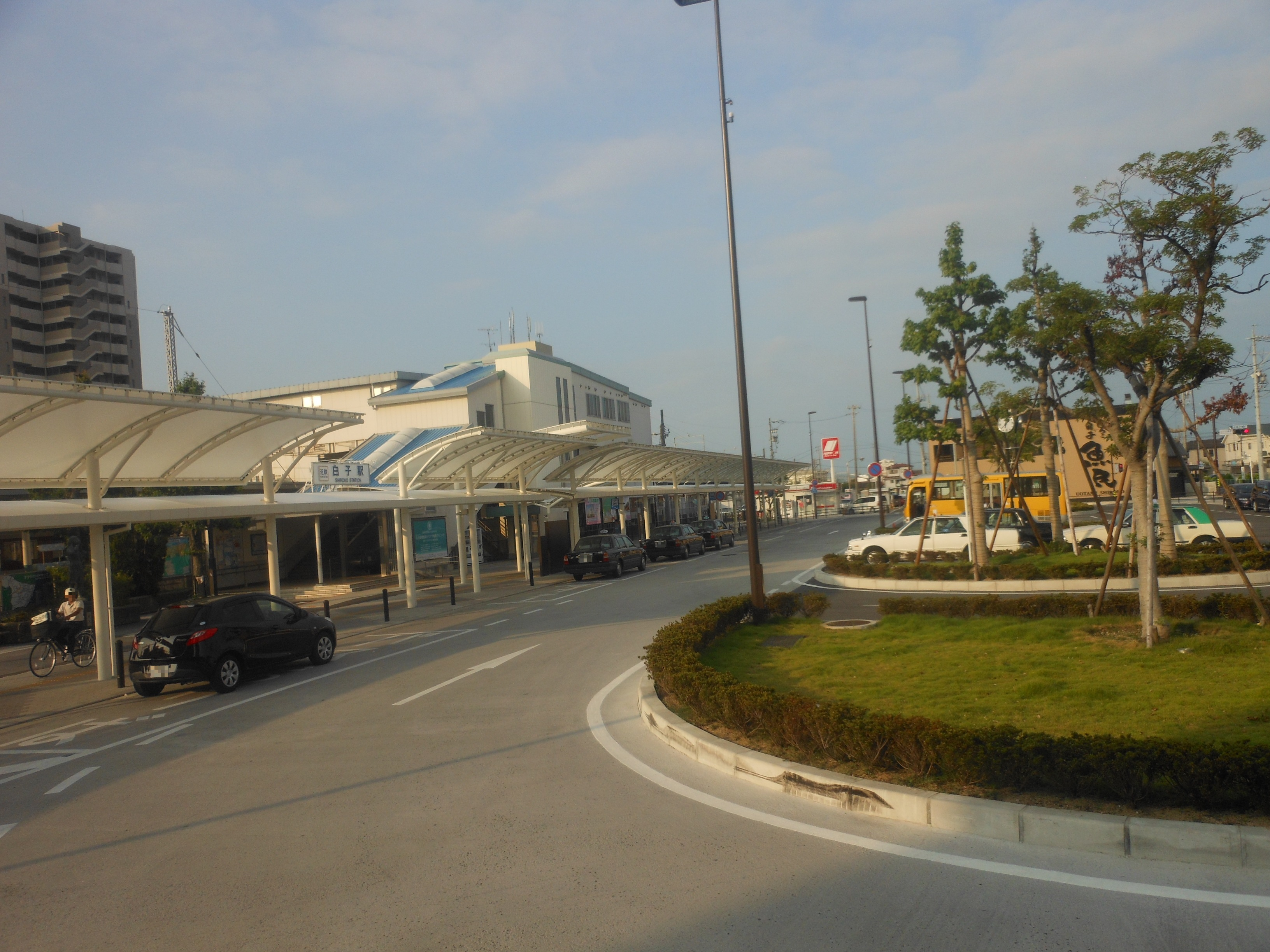 This is a landscape of Shirokoekimae, Suzuka, Mie, Japan.